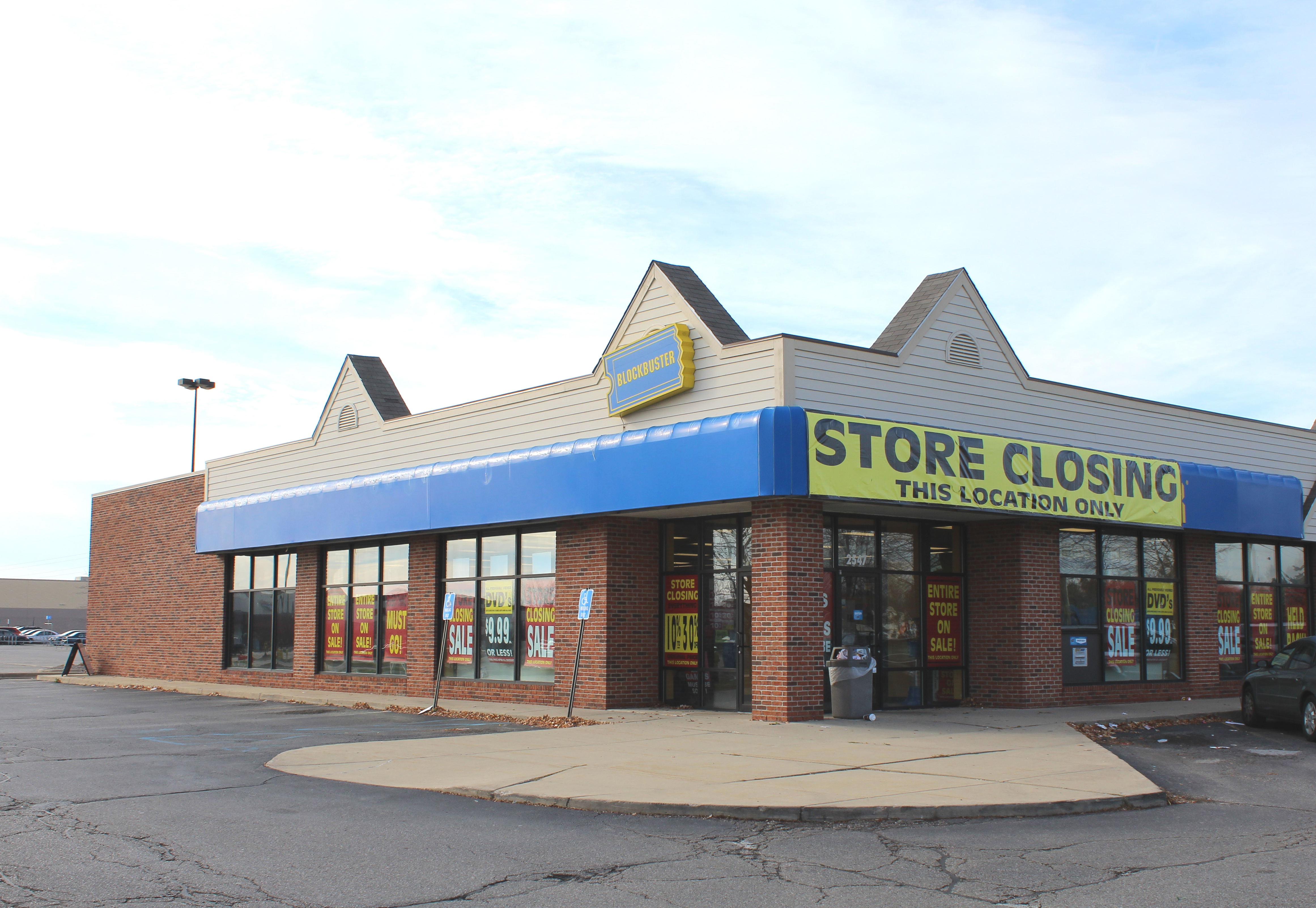 Blockbuster store closing, 2547 Ellsworth Road, Ypsilanti Township, Michigan.